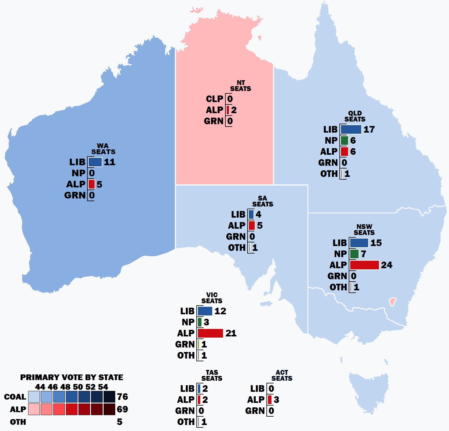 Result of the primary vote by state and territory in the 2019 Australian federal election.